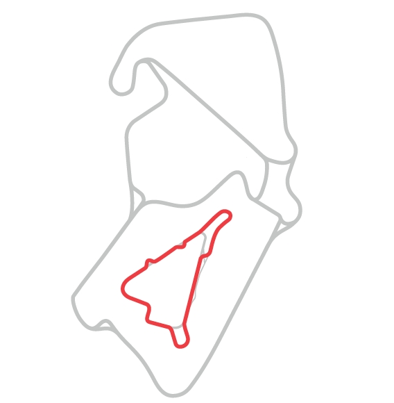 Shows the Silverstone 2010 Silverstone Stowe Circuit with corner names